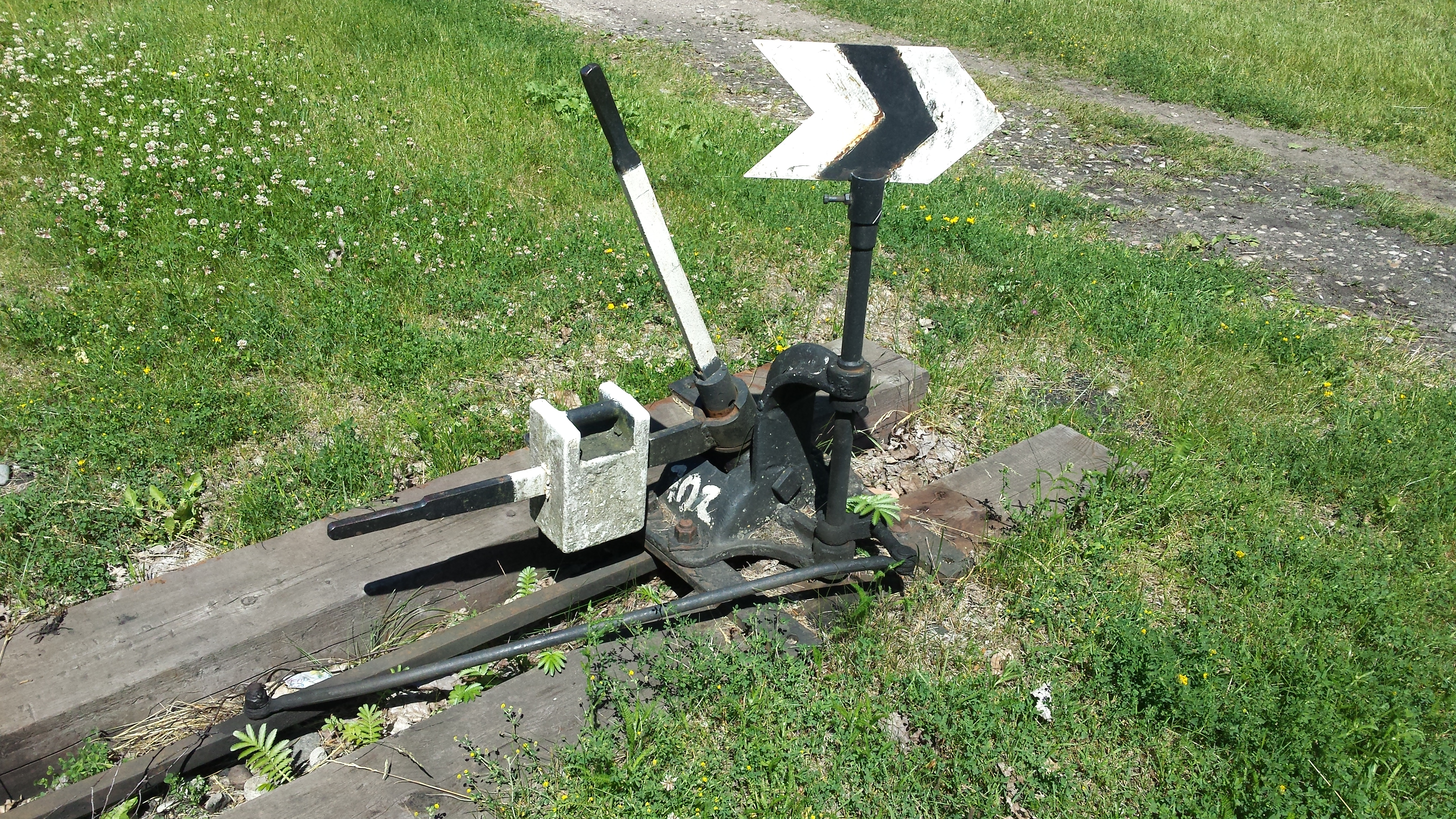 railway switch, Daugavgriva, Riga